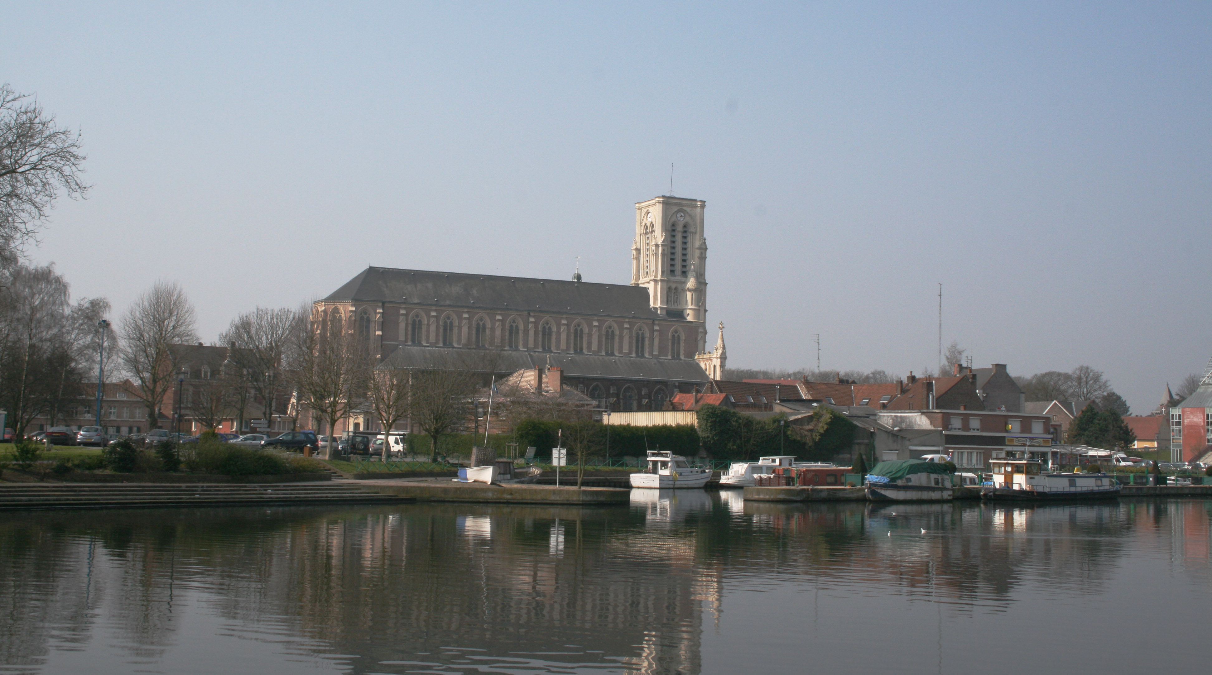 Cathedrale de Wambrechies